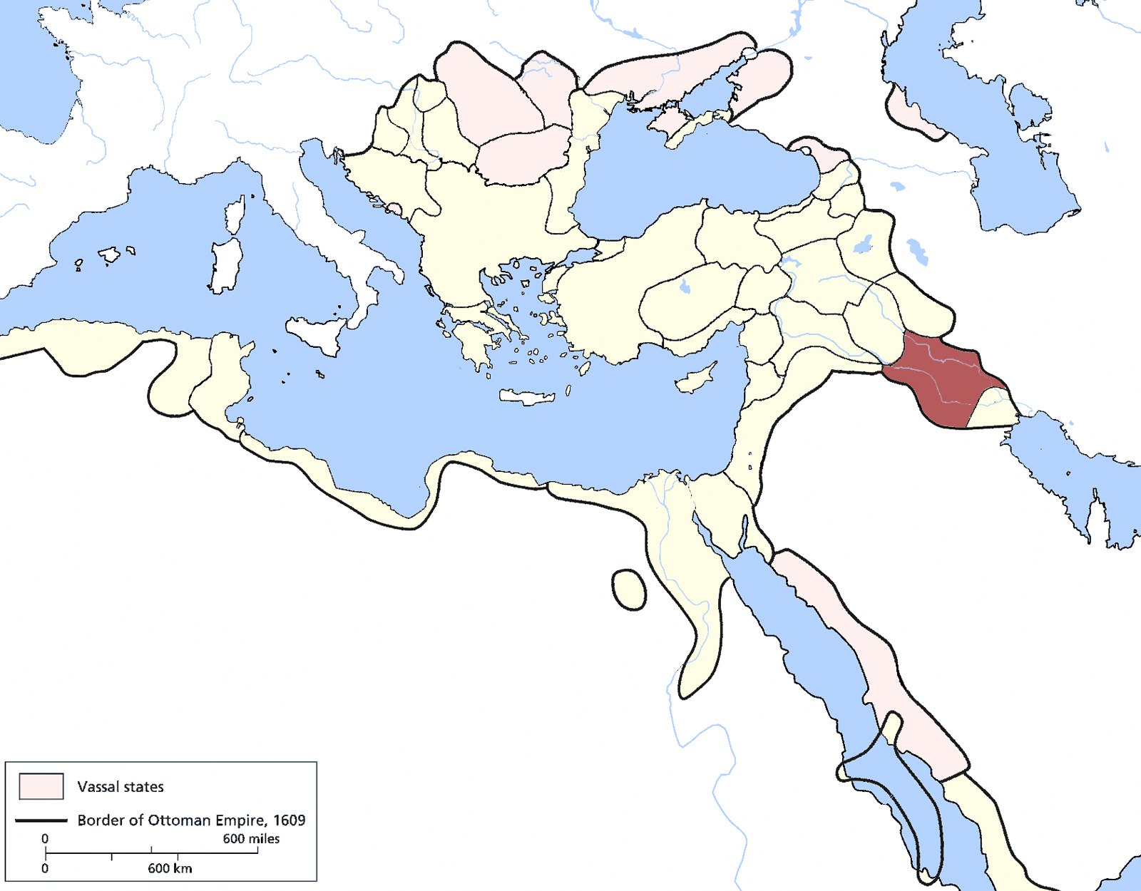 Baghdad Eyalet, Ottoman Empire (1609). Source: Encyclopedia of the Ottoman Empire at Google Books By Gábor Ágoston, Bruce Alan Masters